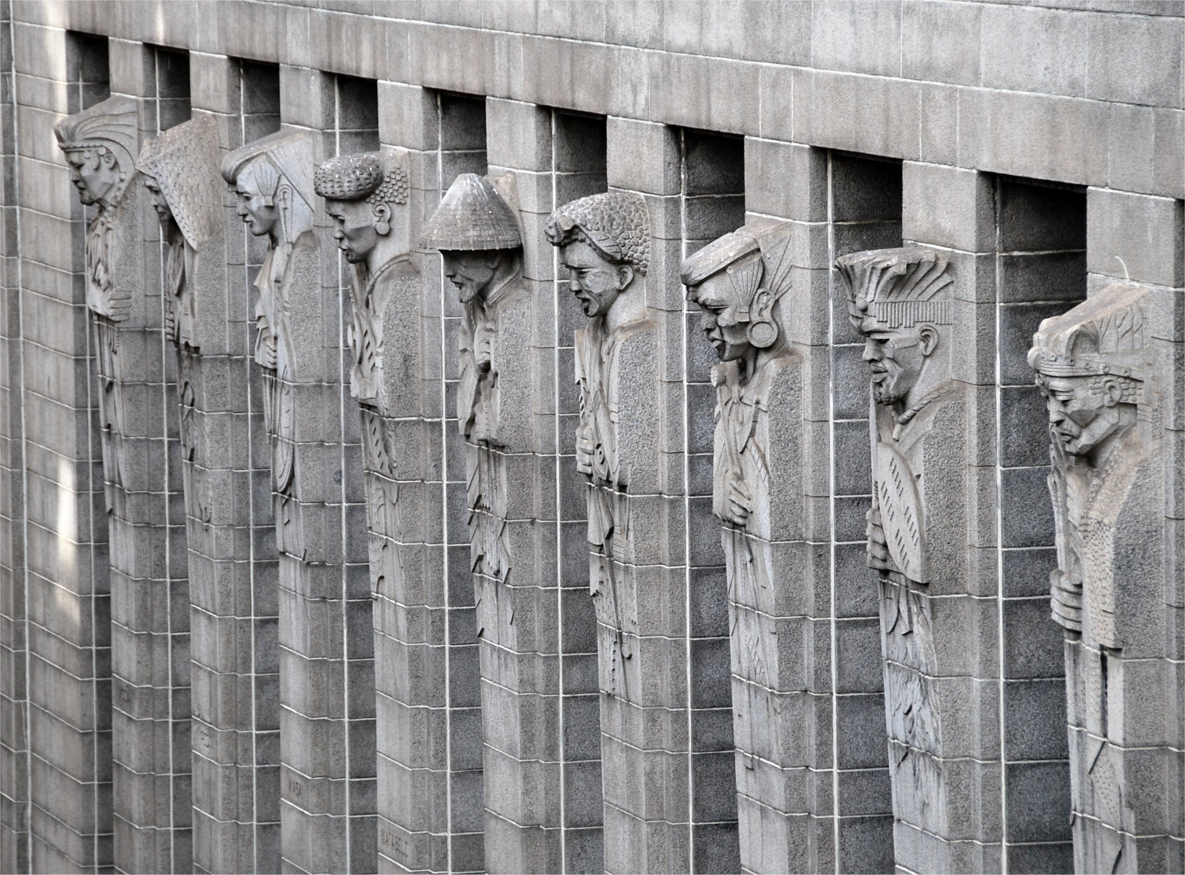 Tribal figures on the Mutual Building, Darling Street Cape Town. Design attributed to Ivan Mitford-Barberton, execution attributed to Adolfo Lorenzi.